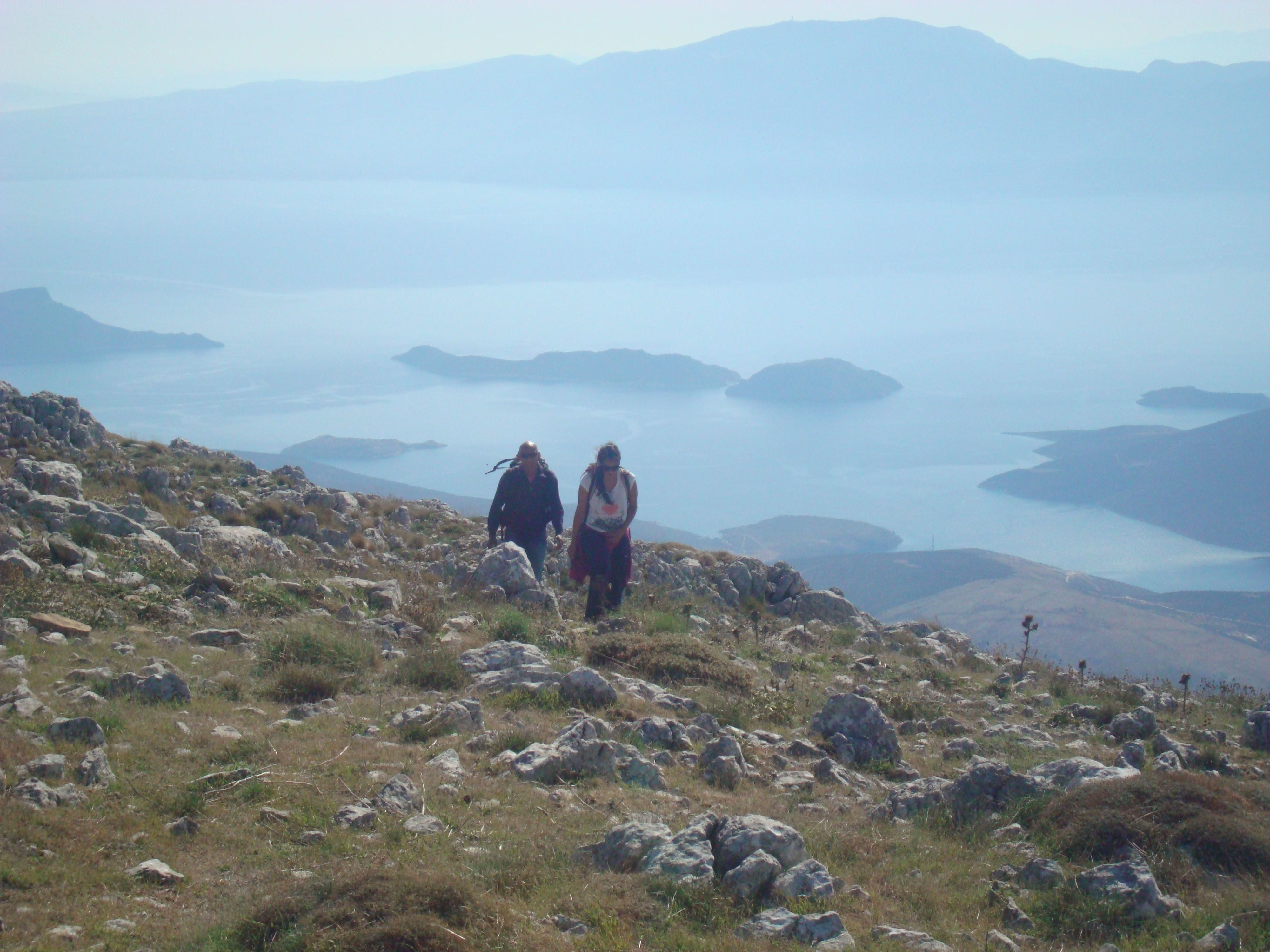 The vue from Mt. Helikon´s top: the Corinthian gulf.